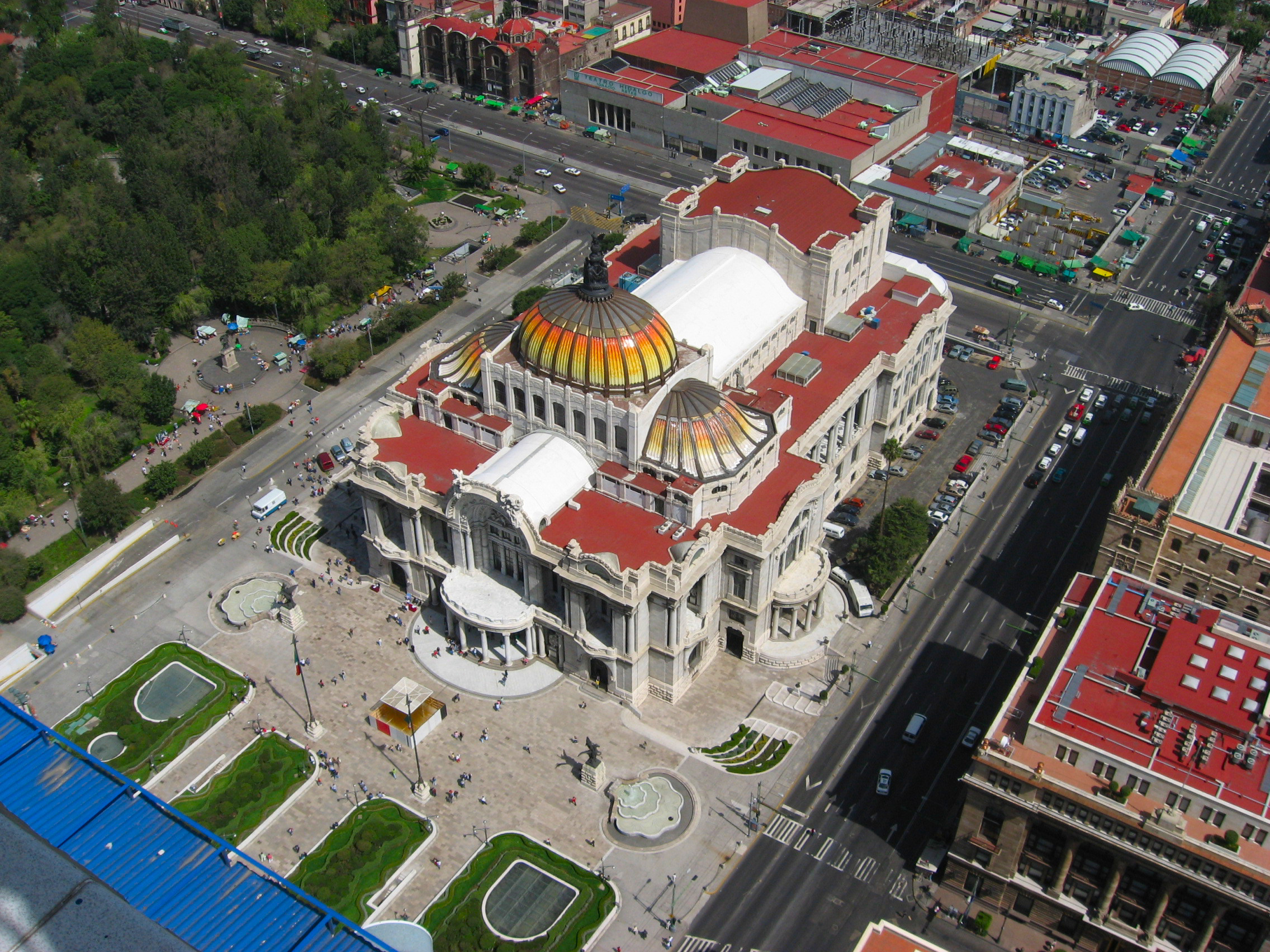 Mexico City - Palace of fine arts seen from top of Torre Latinoamericana